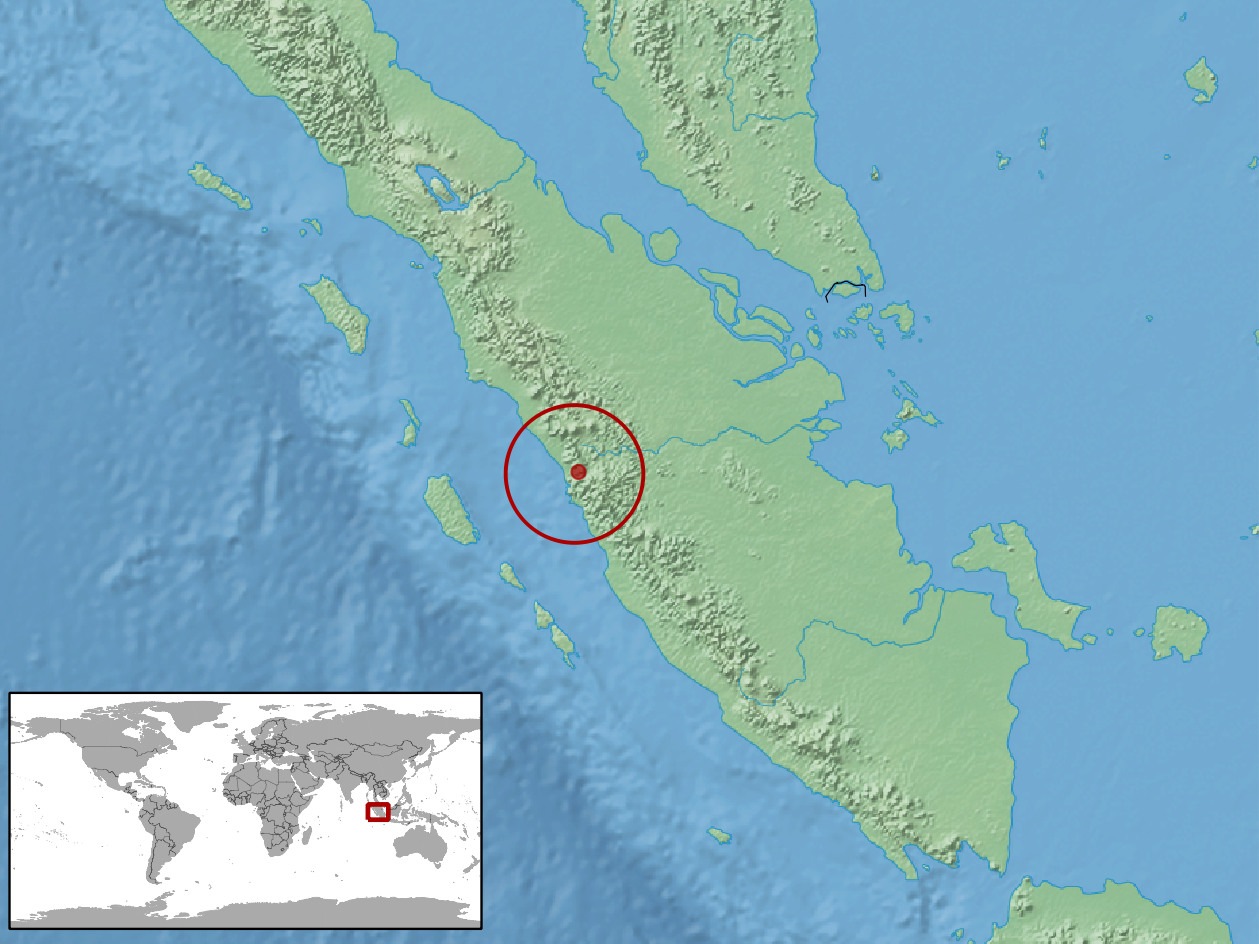 geographic distribution of Etheridgeum pulchrum (Native: Indonesia (Sumatera))